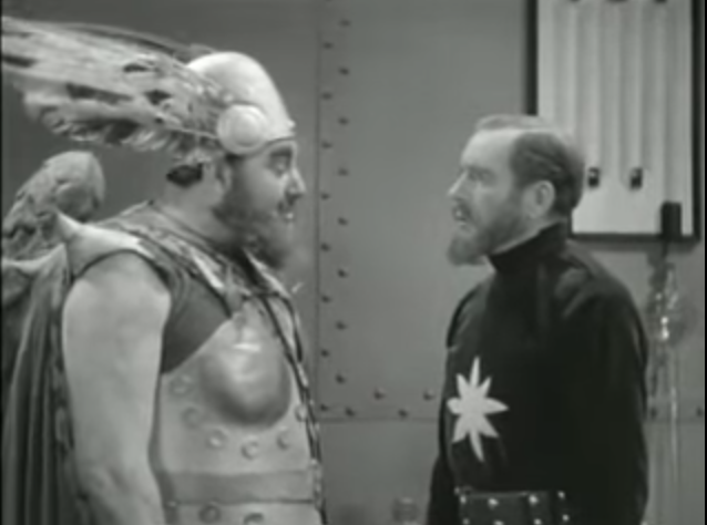 Prince Vultan tells Dr. Zarkov that his friends will continue sentenced to shovel radium into the atom furnaces until he finds a "new force" to hold up the sky city.